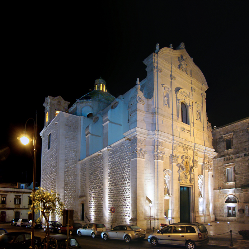 Church of the Carmine, Martina Franca, Apulia, Italy.